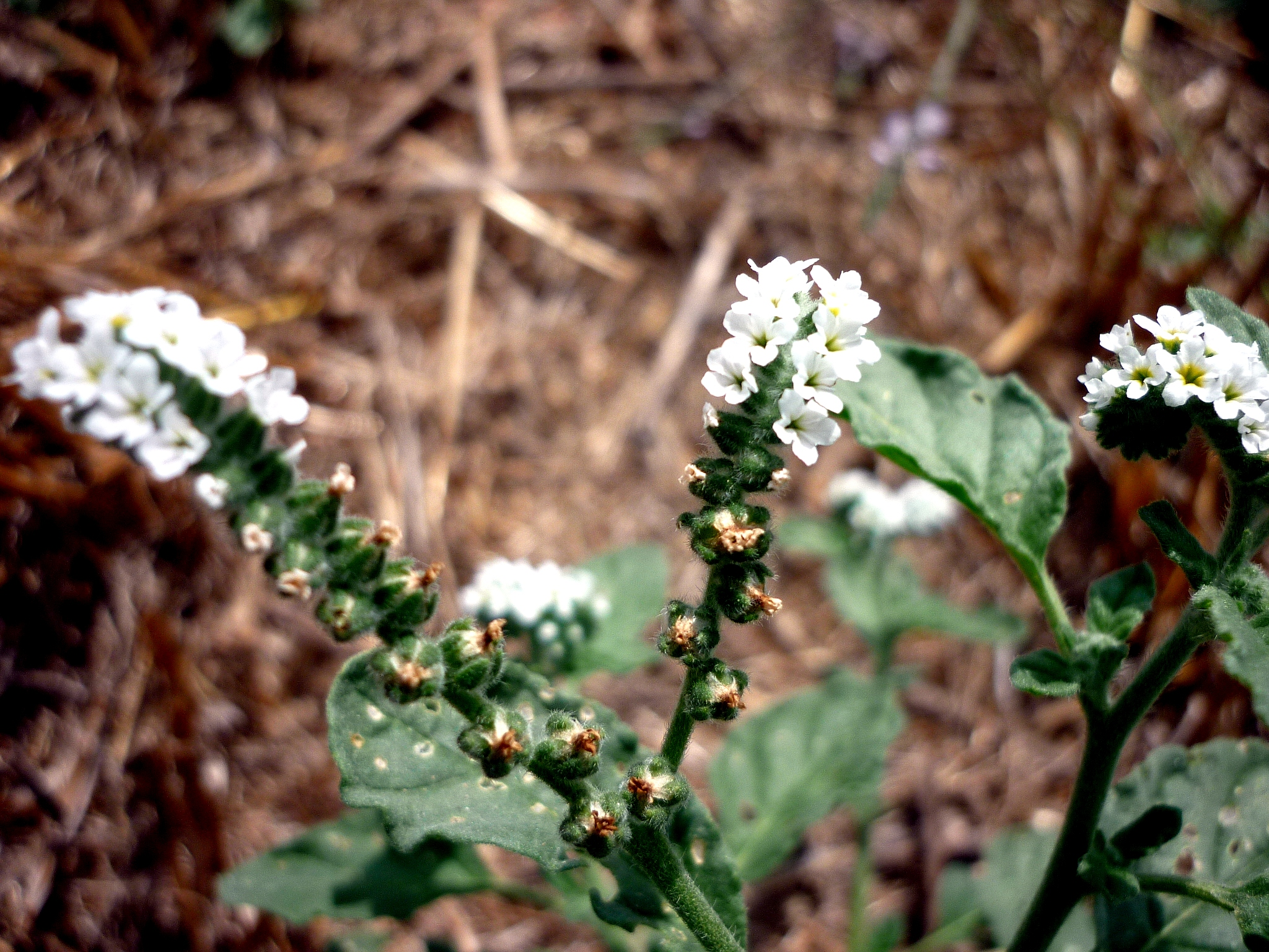 Heliotropium europaeum. In Torà (Segarra- Catalunya). On 600 m. altitude